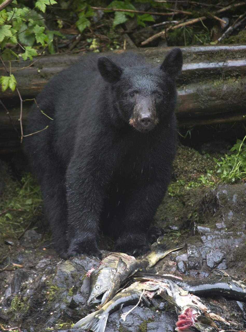 Admiralty Dream